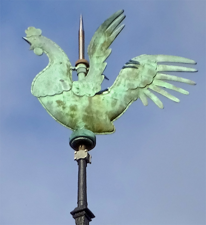 The now destroyed rooster in Notre Dame Cathedral